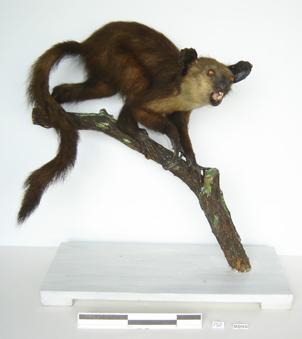 Ai ai at Museu Darder Banyoles-Catalunya